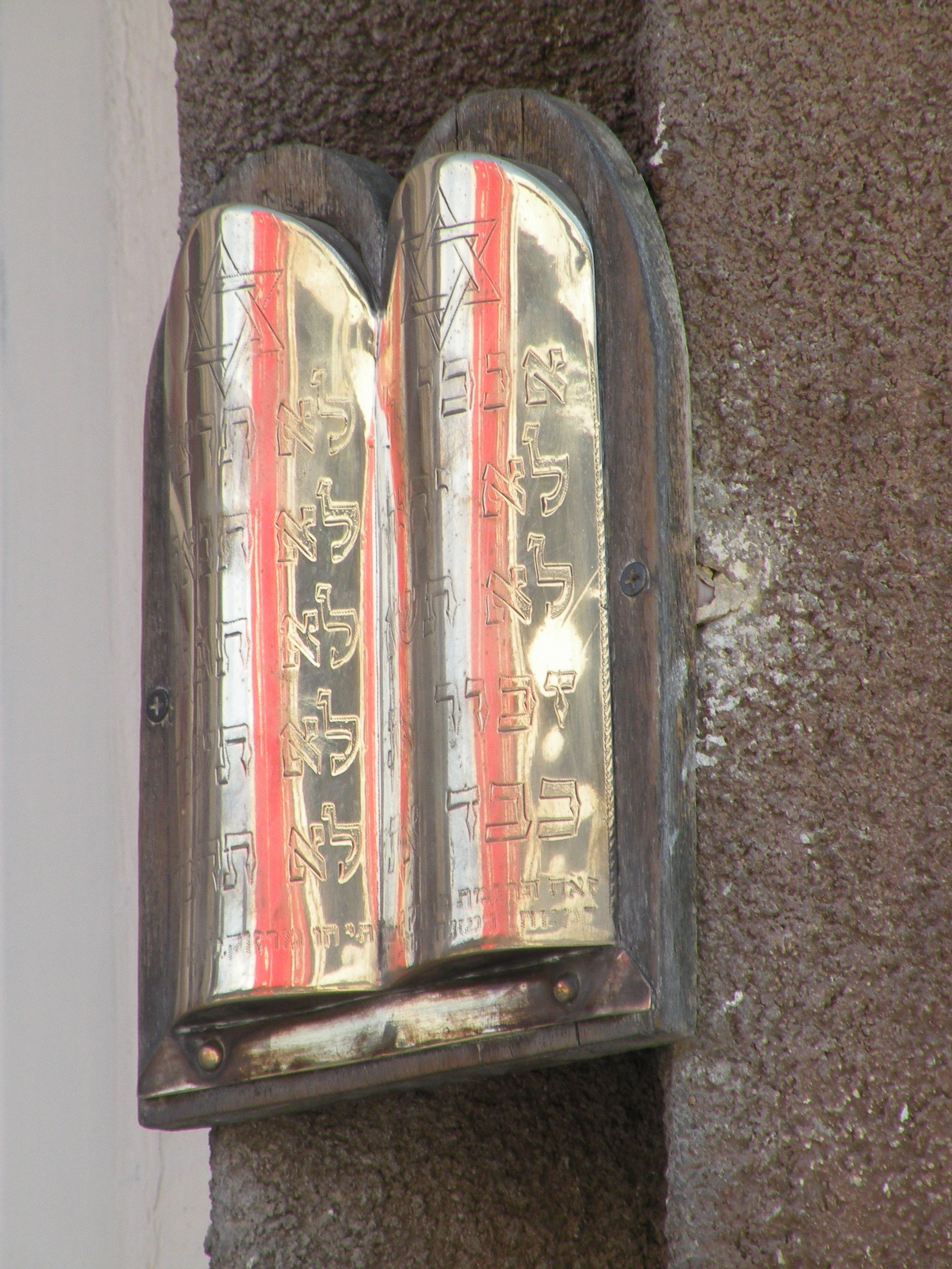 Mezuzah In World Karaite Judaism Center - Ramla